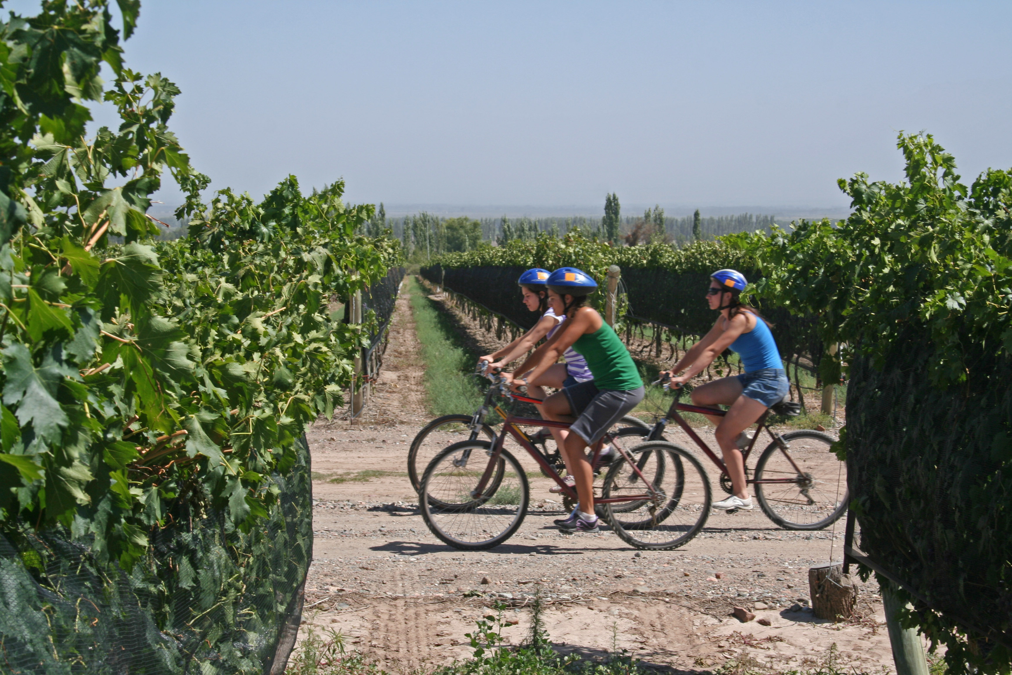 There are more than 30.000 acres of wineyards to bike around in Mendoza.